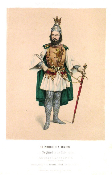 The opera-singer Heinrich Salomon (1825-1903)